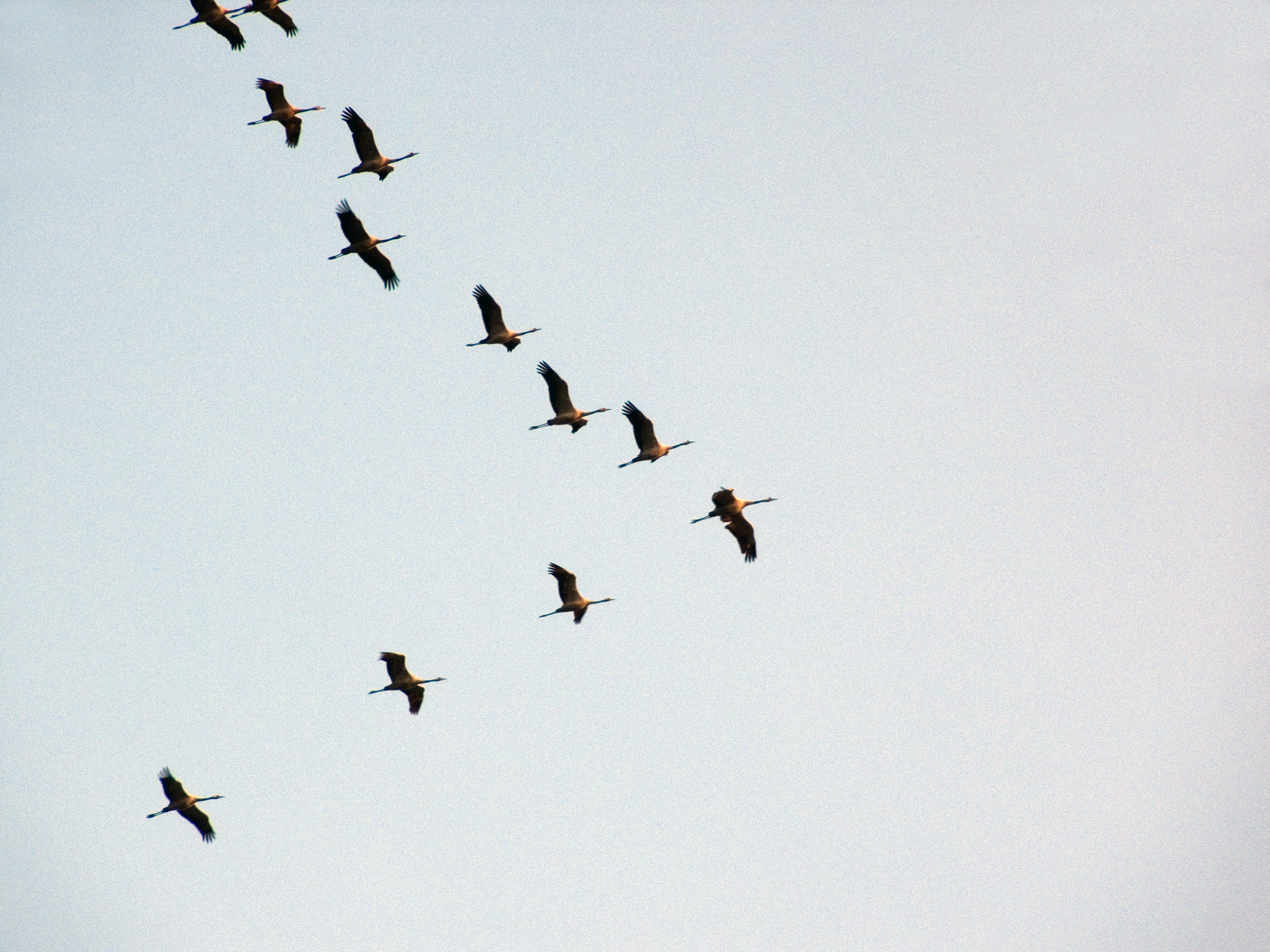 european cranes